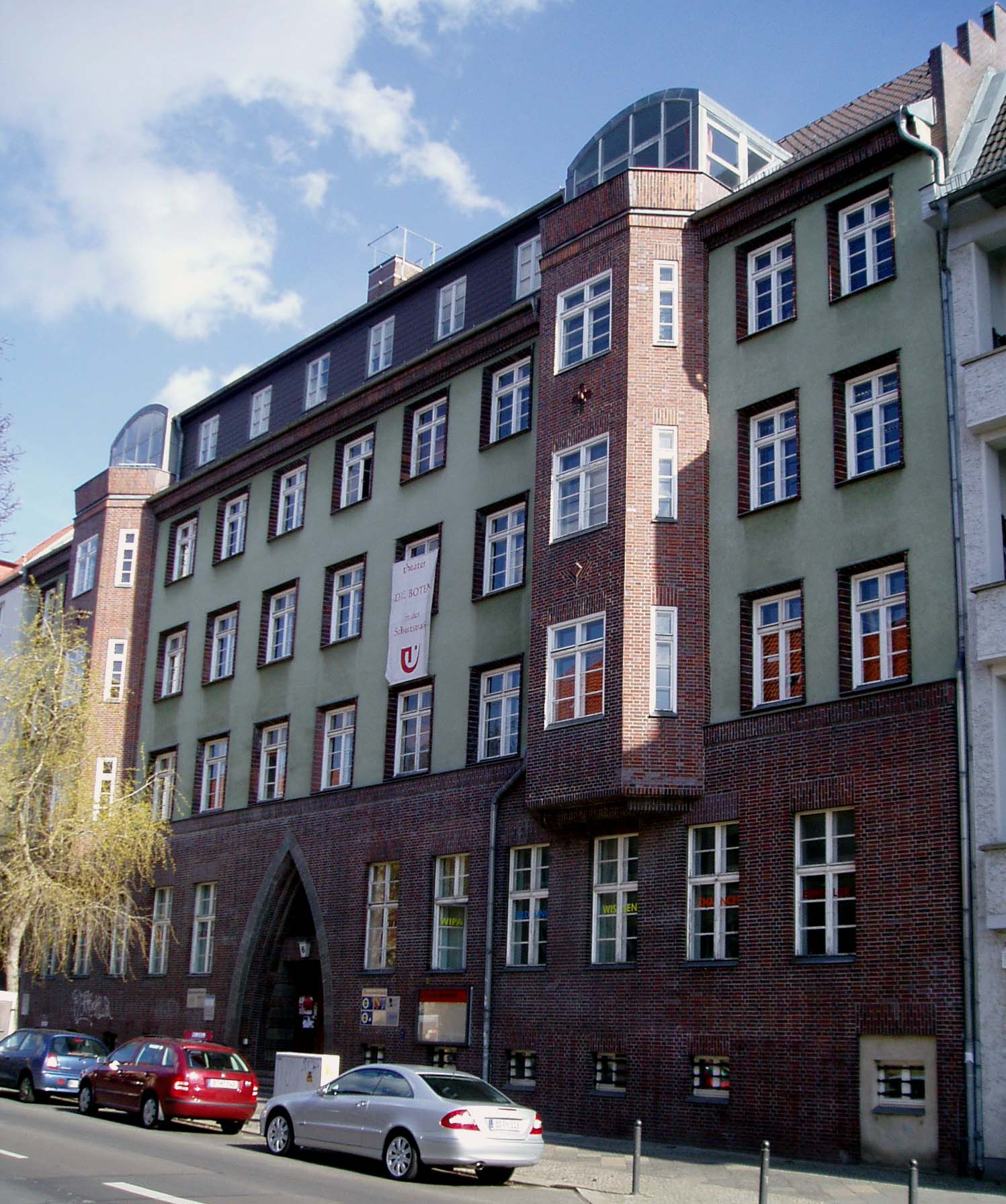 Manse of the former Glaubenskiche in Berlin-Lichtenberg, Germany, Schottstraße 6